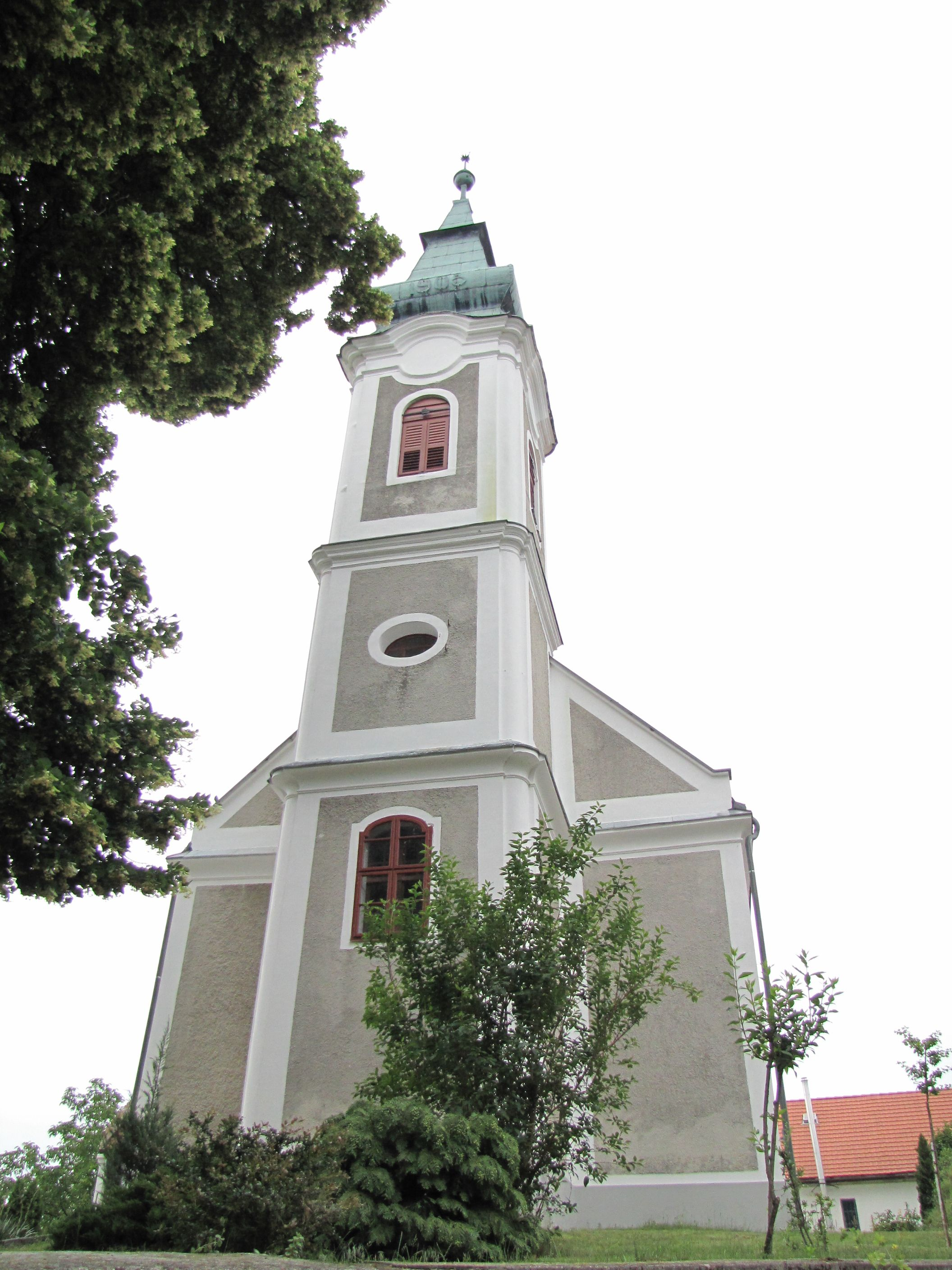 Calvinist Church, Fehérvárcsurgó, Hungary.